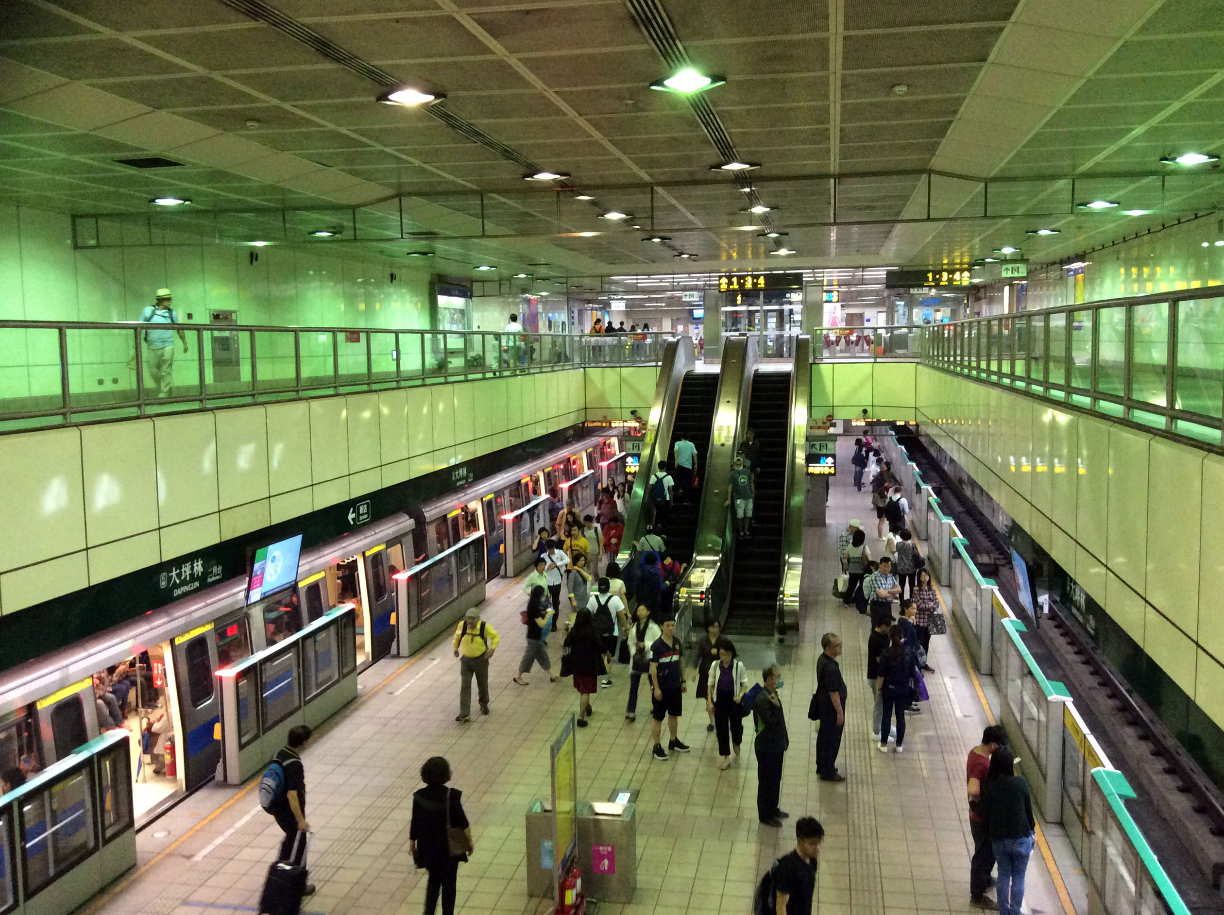 Platform in Dapinglin Station, Taipei Metro